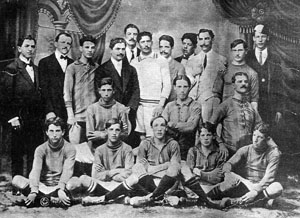 Photo of the team, in 1911.